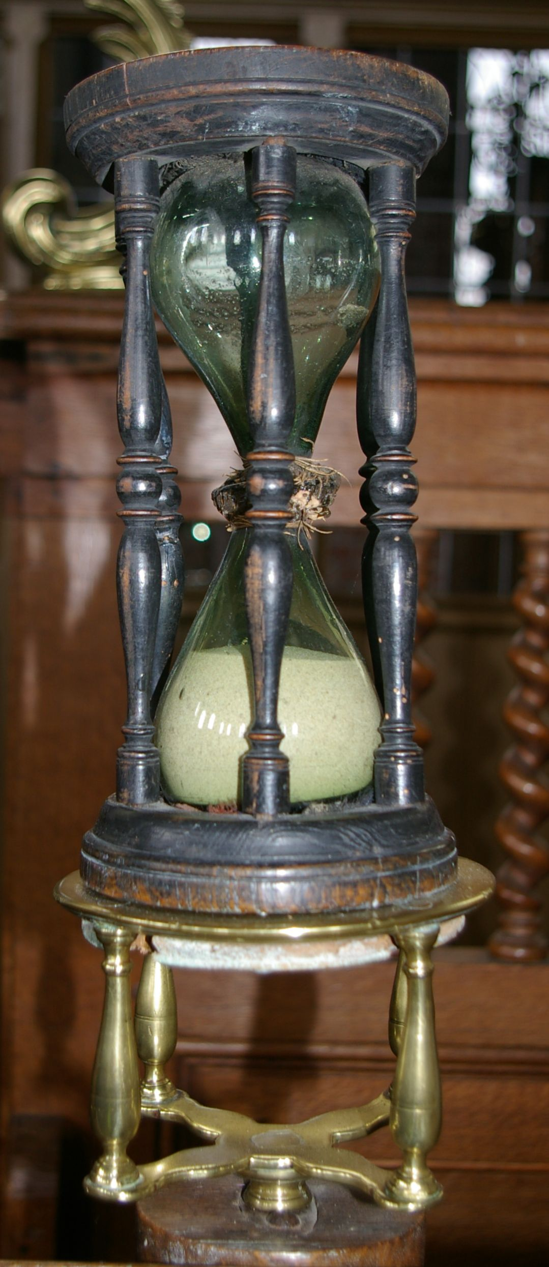 sandglass that is part of interior Bonifacius-church, Medemblik, The Netherlands